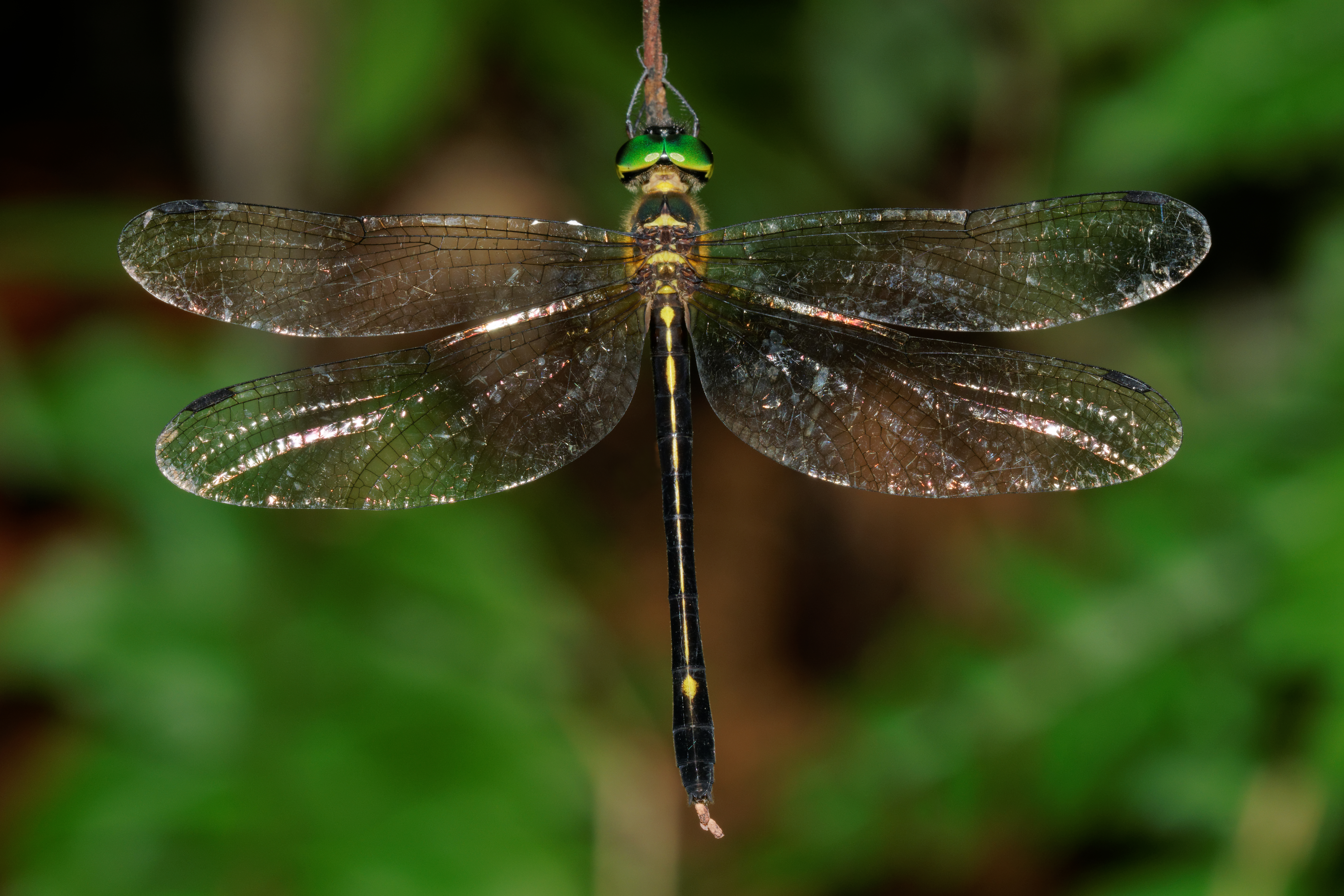 Macromidia donaldi is a species of dragonfly in Corduliidae family. The species is known only from a few localities in Kerala, Karnataka, and Goa districts. The localities are relatively undisturbed and still retain natural forest cover. The species is very cryptic and crepuscular in habits.